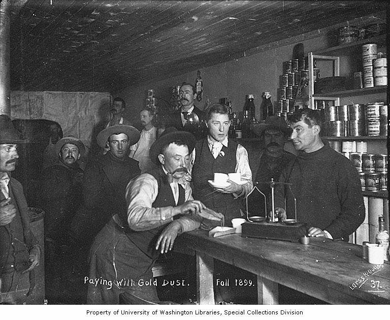 Caption on image: Paying with Gold Dust. Fall 1899. Handwritten on image: Larss & Duclos 37 PH Coll 306.1 Subjects (LCTGM): Bars--Yukon--Dawson;; Stores & shops--Yukon--Dawson; ; Interiors--Yukon--Dawson; ; Gold; Scales Subjects (LCSH): Bars (Drinking establishments)--Yukon--Dawson